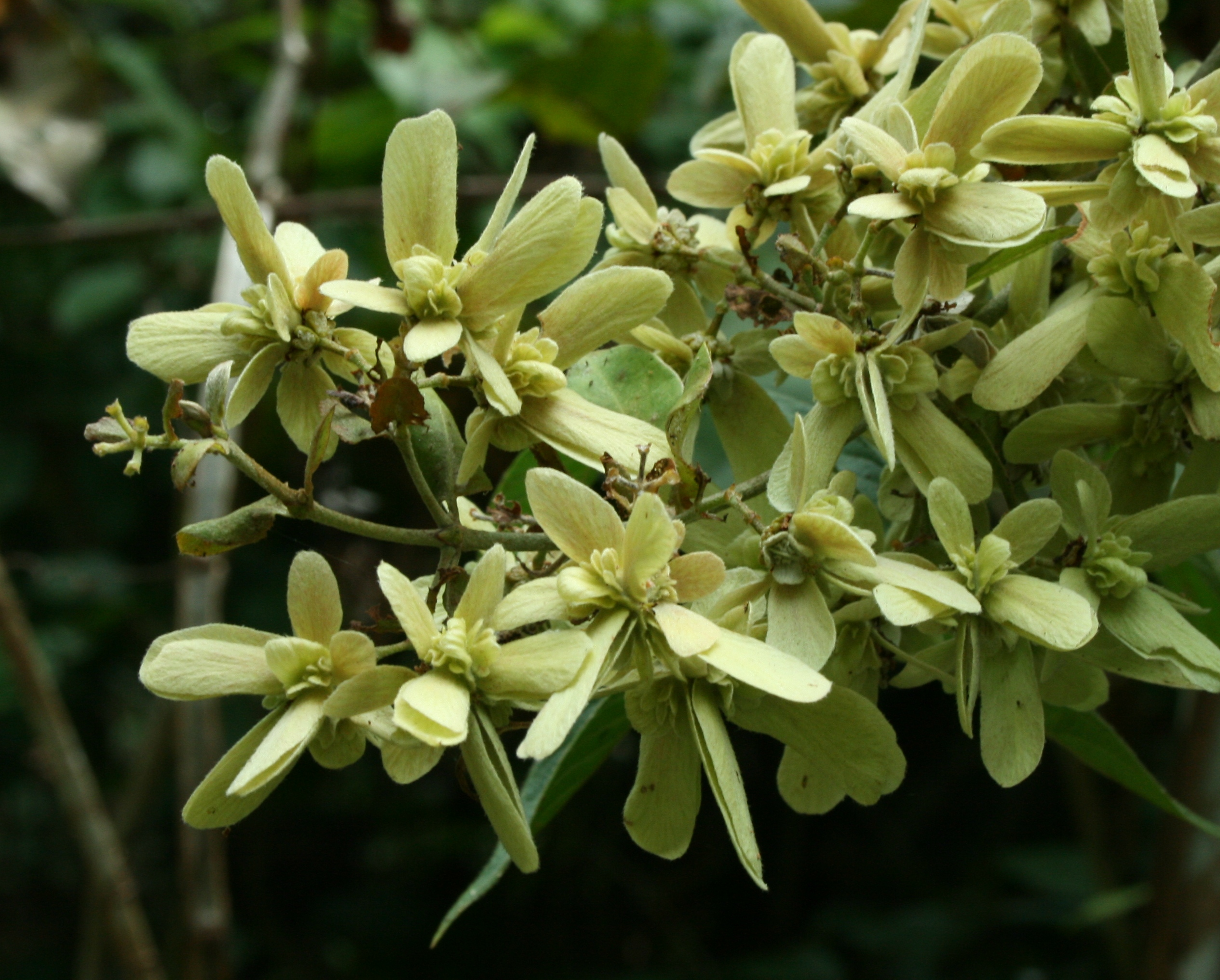 Fruits of Tetrapterys discolor, Cacuri, Venezuela